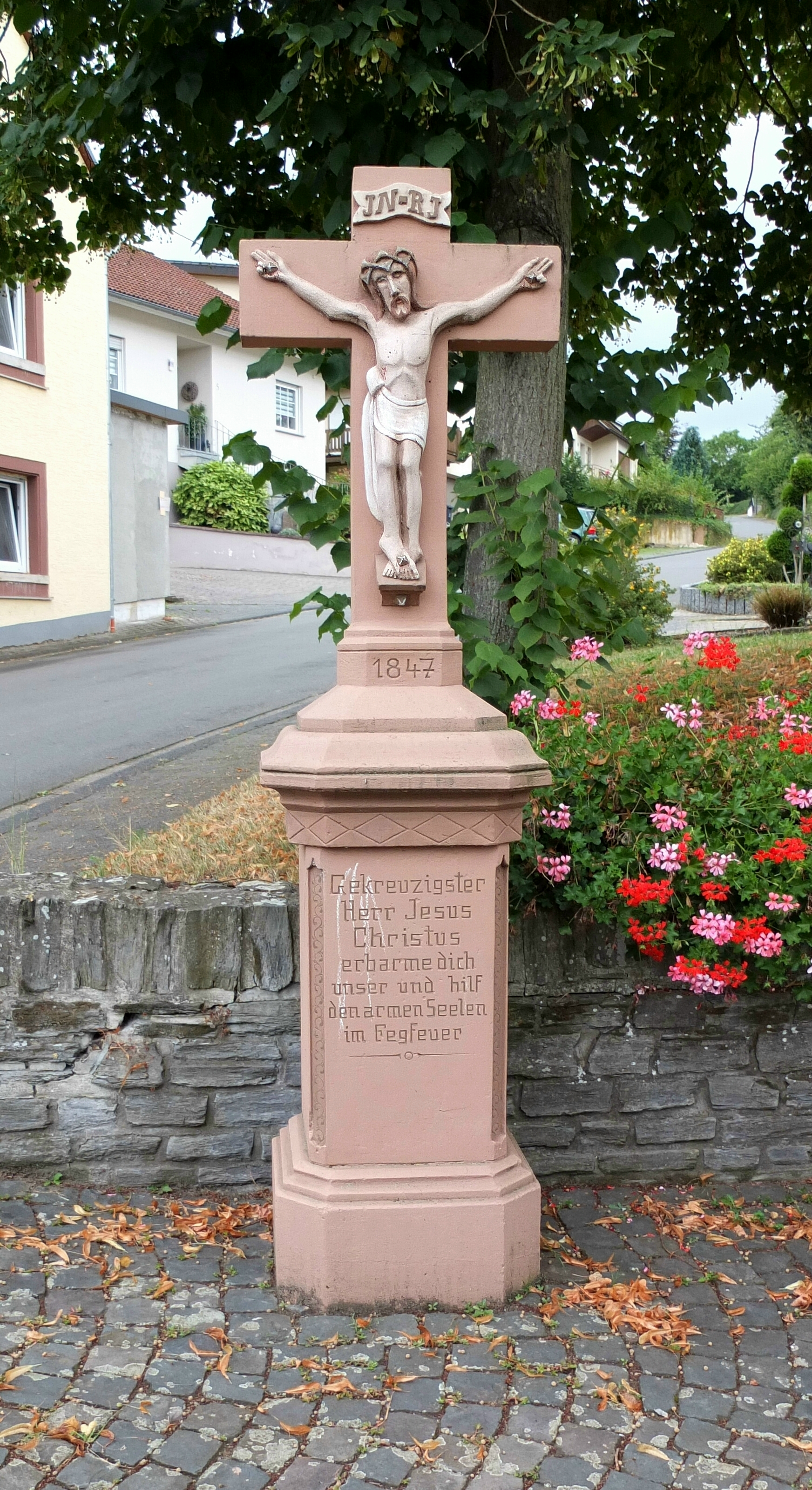 Wayside cross in Platten (near Wittlich), dated 1847. This is a photograph of an architectural monument.It is on the list of cultural monuments of Platten (bei Wittlich)